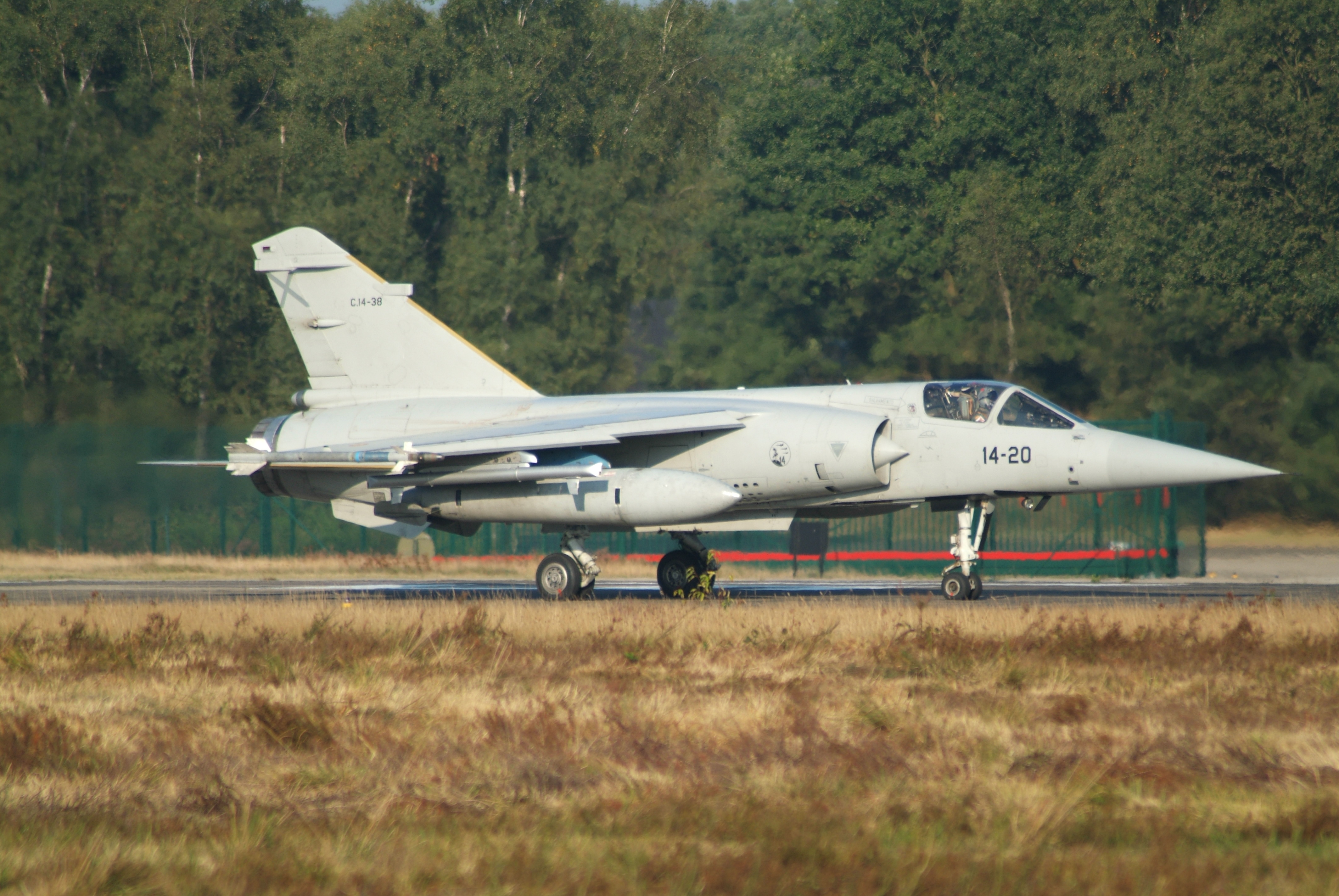 Before upgrade to F.1M standard this was a Mirage F.1CE